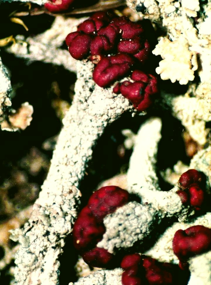 Cladonia cristatella Tuck. (photograph of a herbarium specimen taken through a dissecting microscope (x19) showing a verrucose, nonsorediate podetium topped with red apothecia) Growing on stump in sphagnum bog along Maple Glade Road, about one mile W of Park Headquarters at Swallow Falls State Forest, Garrett County, Maryland, USA; collected and identified by A. Norden and B. Ball (No. 107, 31 Dec 1972); specimen is now in the Lichen Herbarium of the New York Botanical Garden.